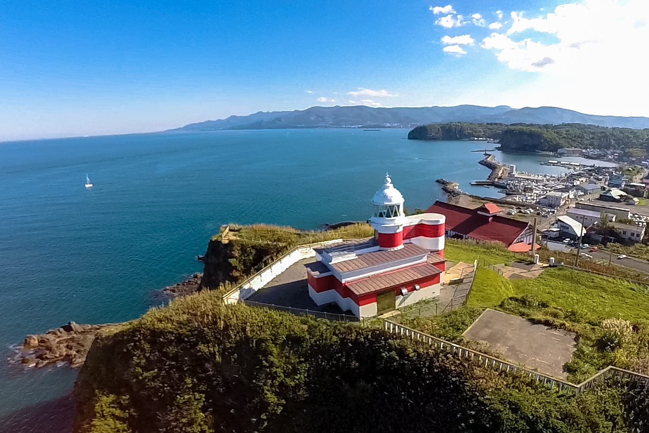 Hiyoriyama Lighthouse, Shukutsu, Otaru, 2014 September